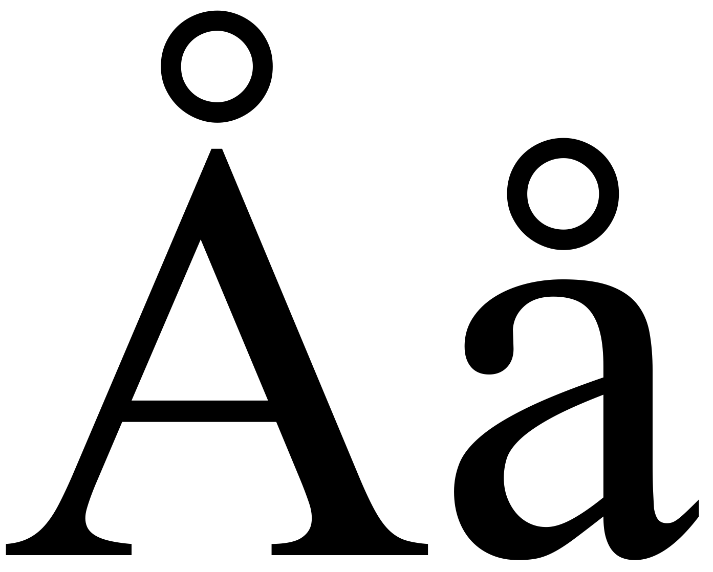 Glyphs Å and å in Doulos SIL